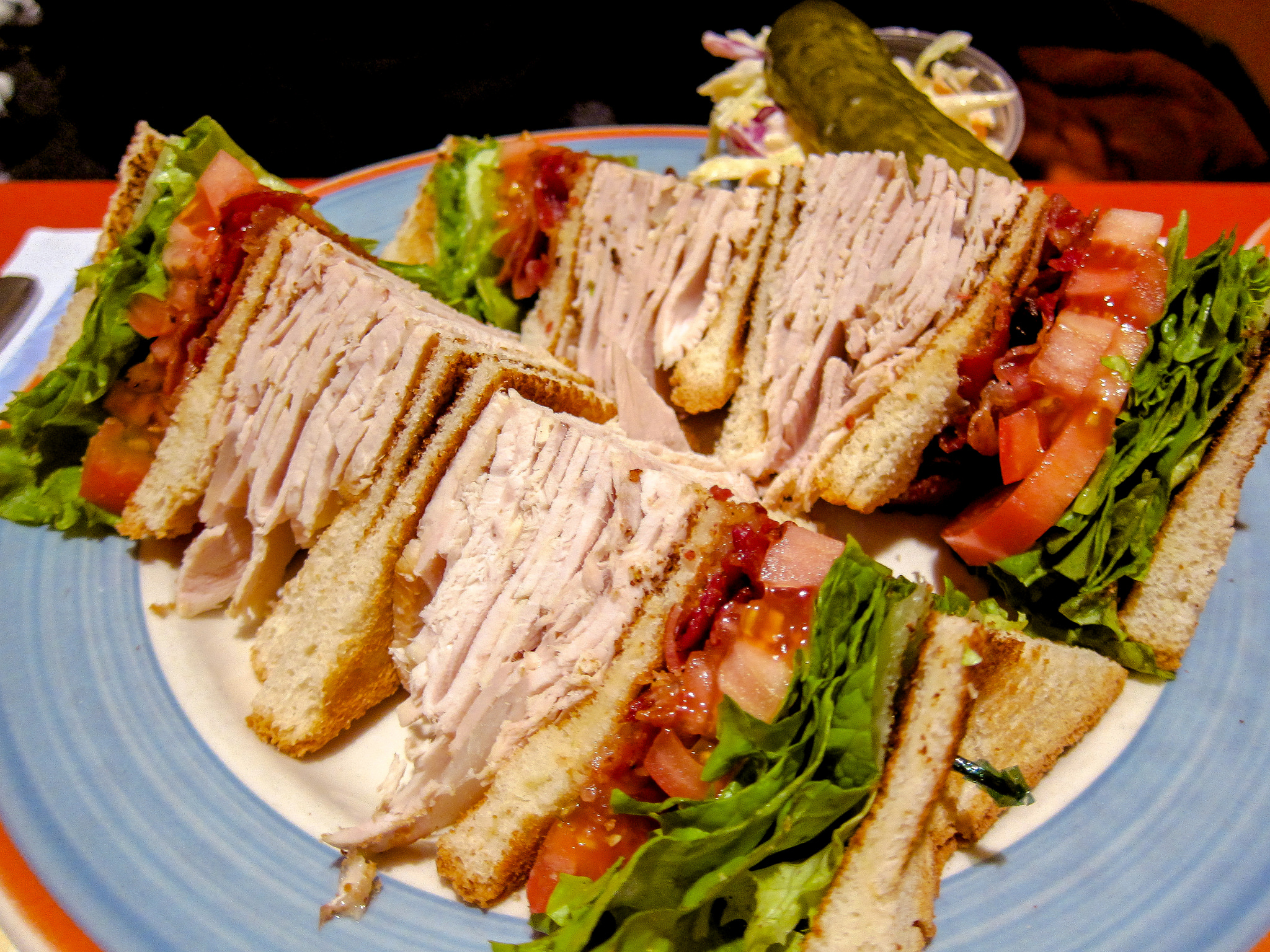 club sandwich